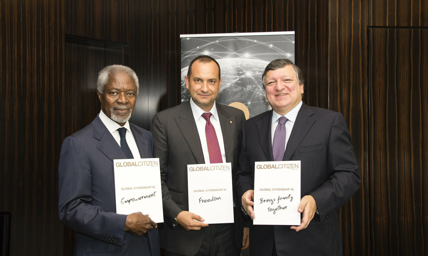 Armand Arton (centre) with Kofi A. Annon, former secretary-general of the United Nations (left) and Jose Manuel Barroso,former prime minister of Portugal (right).